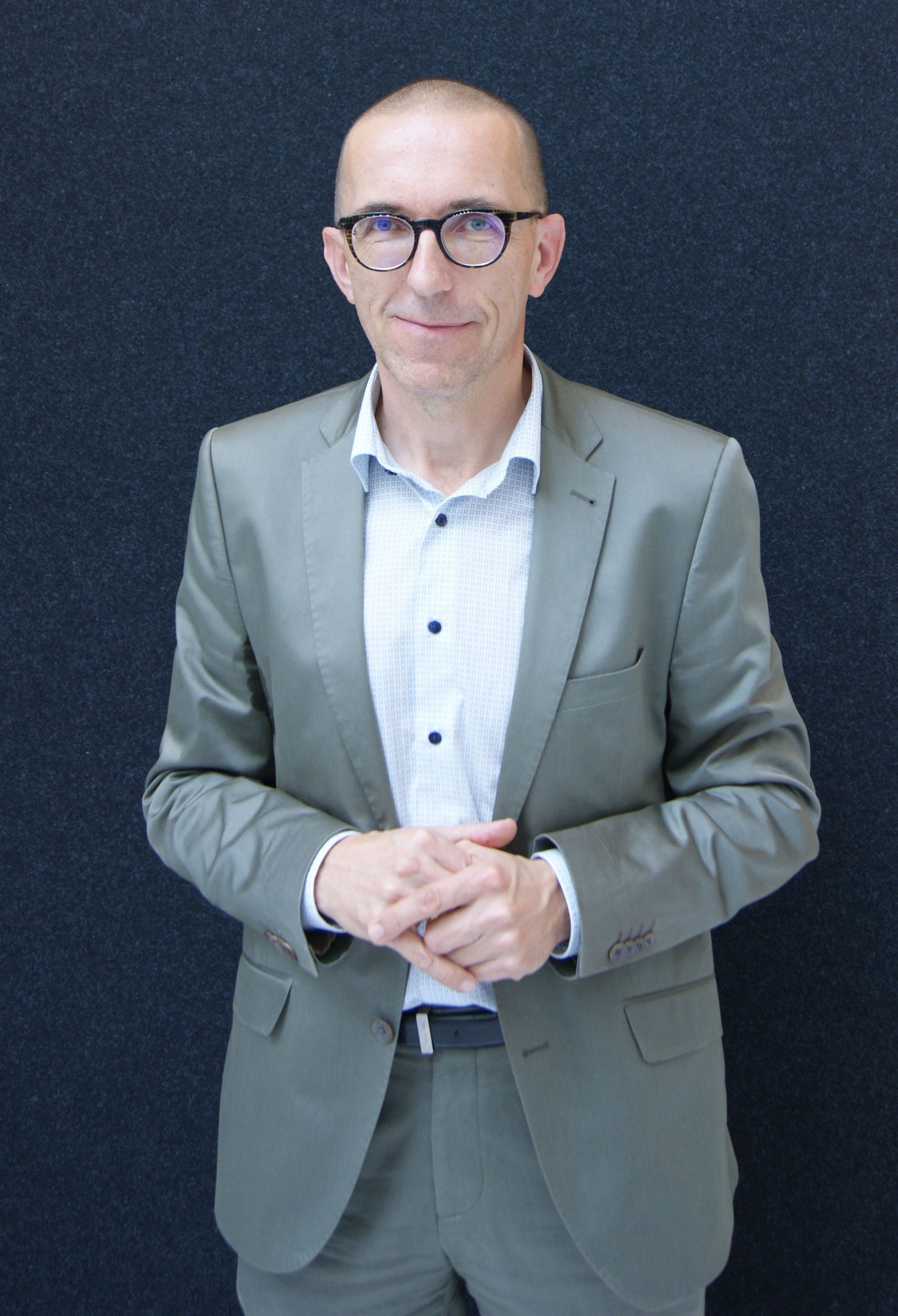 Photo on the occasion of the European Economic and Social Committee event in Feldkirch, Vorarlberg, Austria on 11 October 2018: "Economic progress and social stability as a means against EU skepticism?" Walter Schmolly (born 1964) studied theology and mathematics and worked 1994 - 1998 as a assistant at the Faculty of Theology of Innsbruck. From 1999 to 2005 he had been head of the Catholic Organisation for Education and Training in Vorarlberg, 2005 - 2015 Head of Pastoral Office of the Diocese in Feldkirch and since 2015 Director of Caritas Vorarlberg.